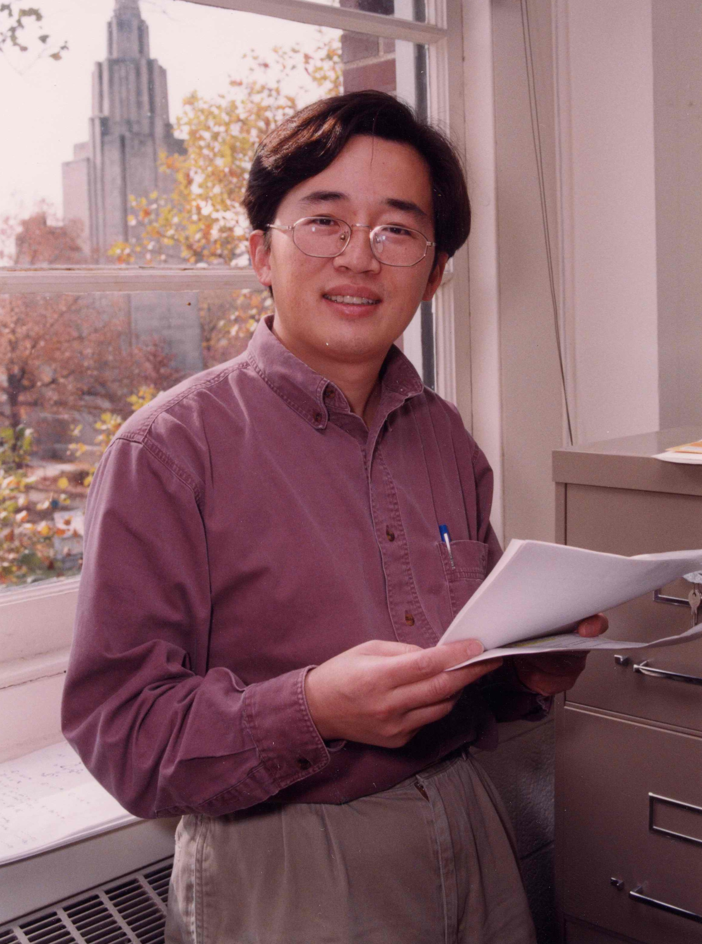 Image of professor Yonggang Huang